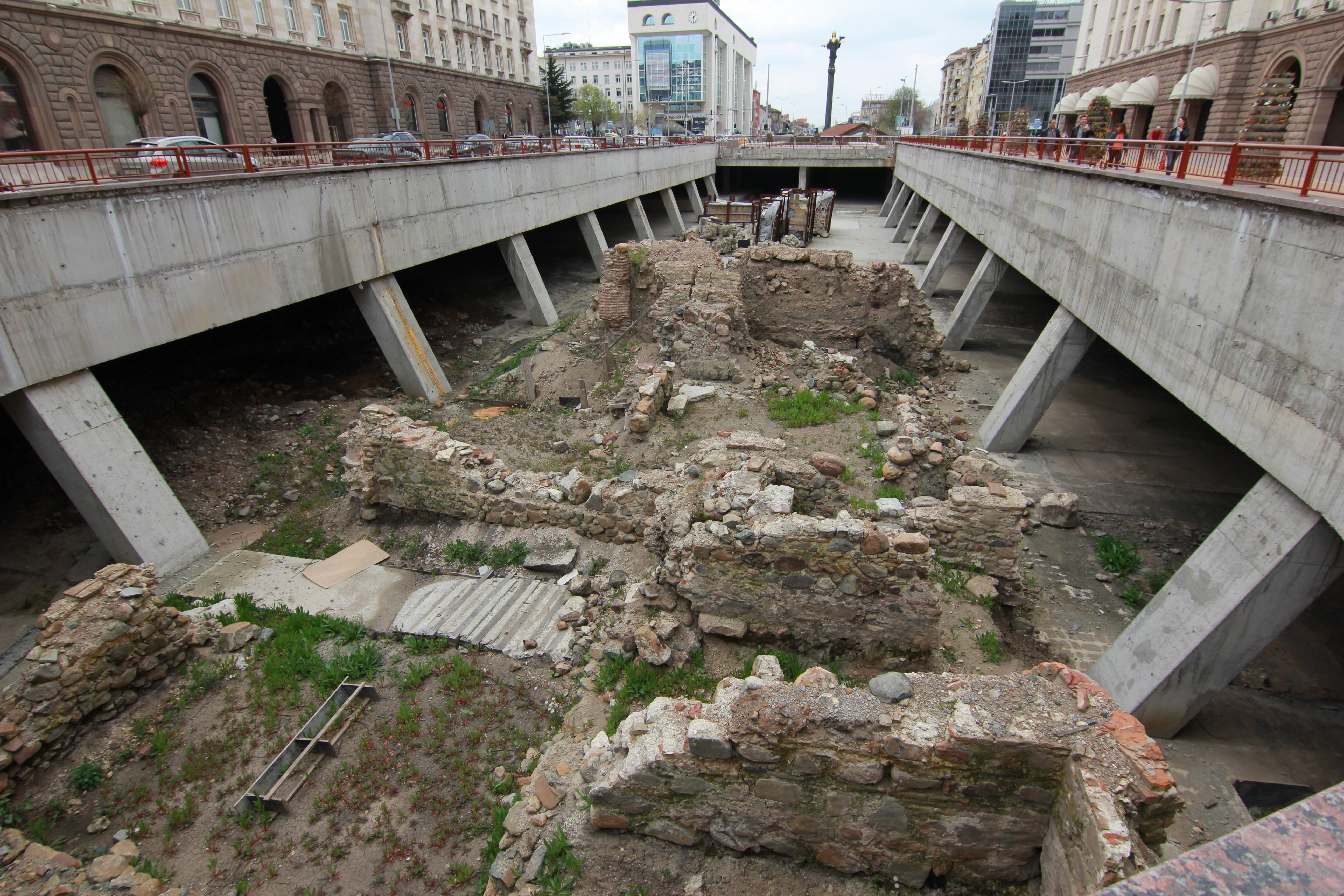 Archeological findings in Sofia center